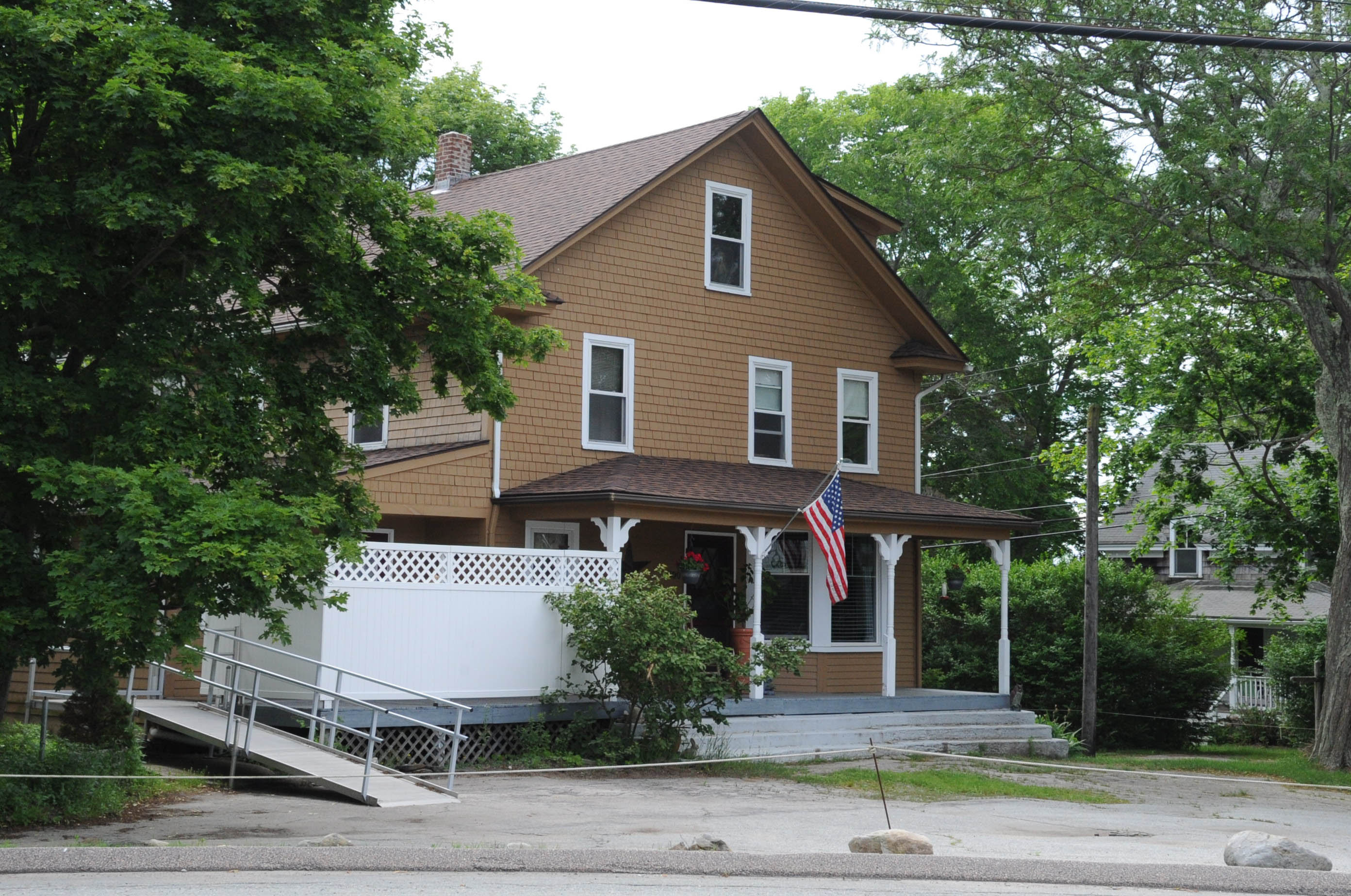 SAUNDERSTOWN COUNTY STORE BUILT CIRCA 1914 ON BOSTON NECK ROAD